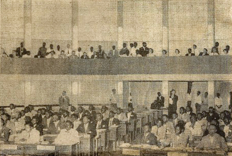 The first Congolese Parliament, specifically the Chamber, in session to cast a vote of confidence in Prime Minister Patrice Lumumba